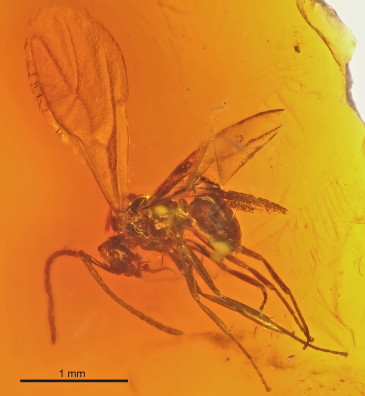 Dorsal view of a Nylanderia pygmaea queen. In the same amber sample as Nylanderia pygmaea" male BMNHP-II1111A Specimen BMNHP-II1111B; British Museum of Natural History Baltic Amber, Middle Eocene; Samland Peninsula?, Baltic Region, Europe.